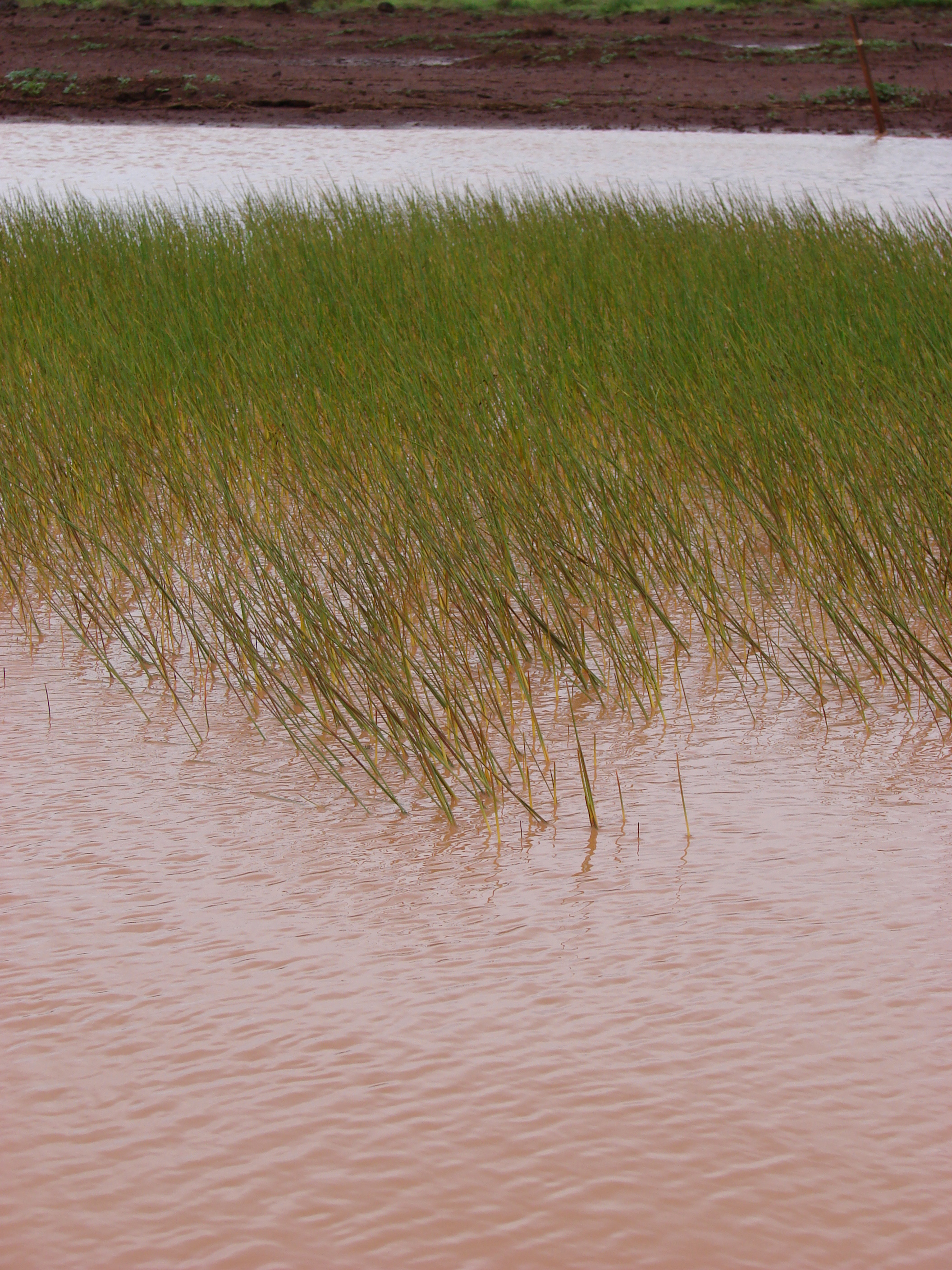 Eleocharis calva (habit in wetland). Location: Kahoolawe, Lua Kealialalo